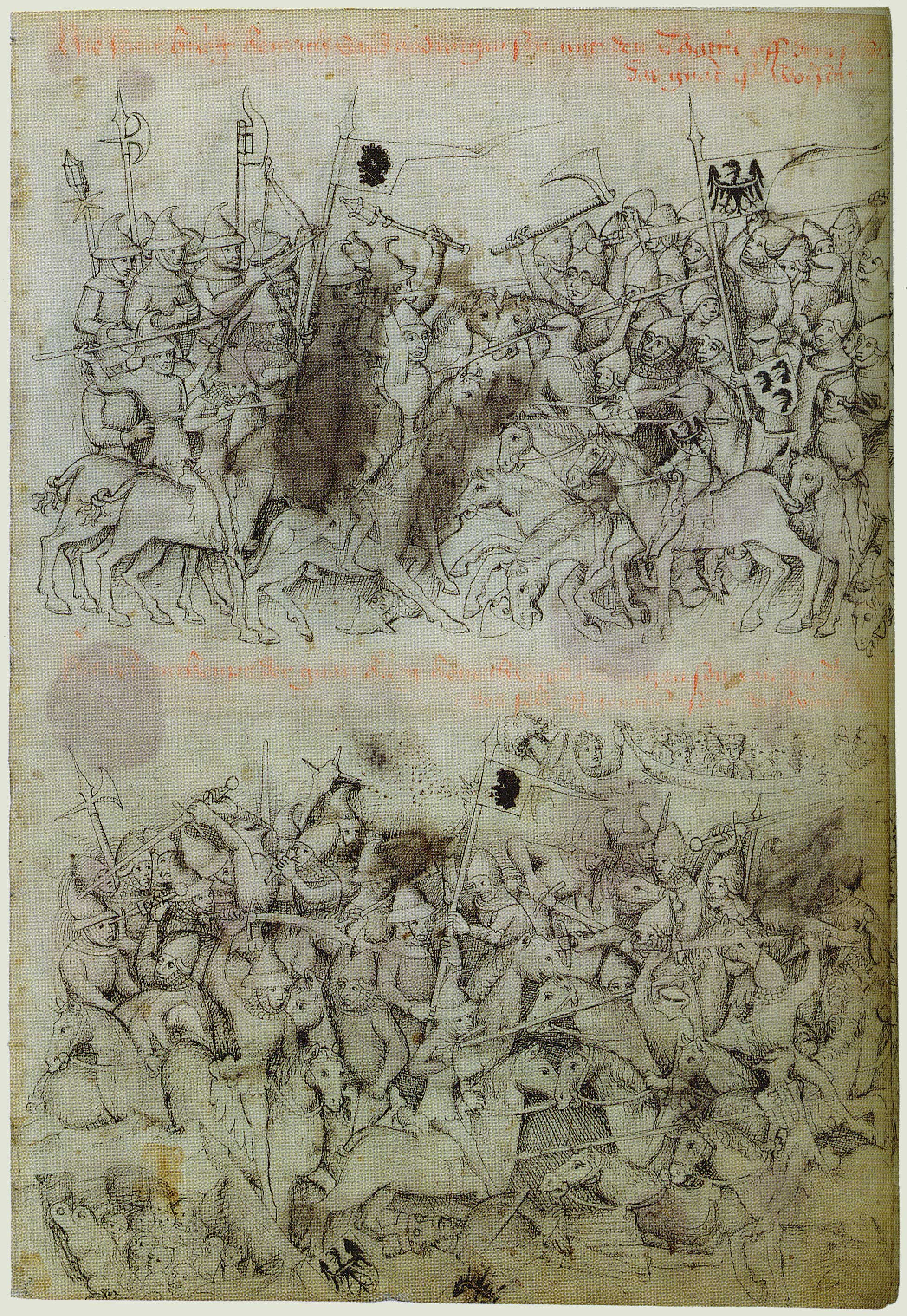 Henry II of Silesia is killed in the battle of Liegnitz. Freytag's Hedwig manuscript, 1451. Wroclaw University Library, Inv. no. IV F 192, fol. 6 r. See also Image:HedwigManuscriptLiegnitz_b.jpg and Image:HedwigAltar.jpg.